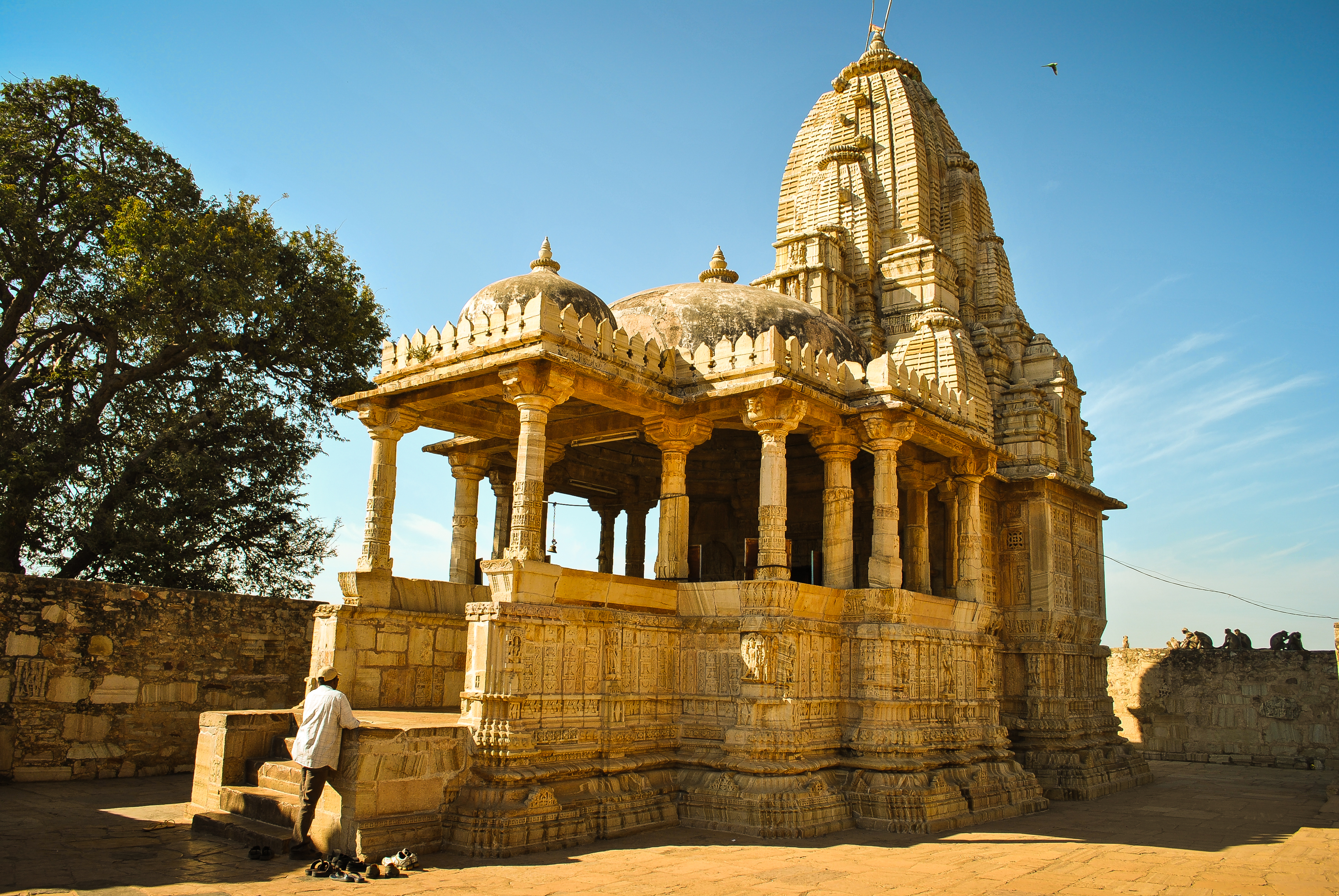 Rajasthan-Chittore_Garh